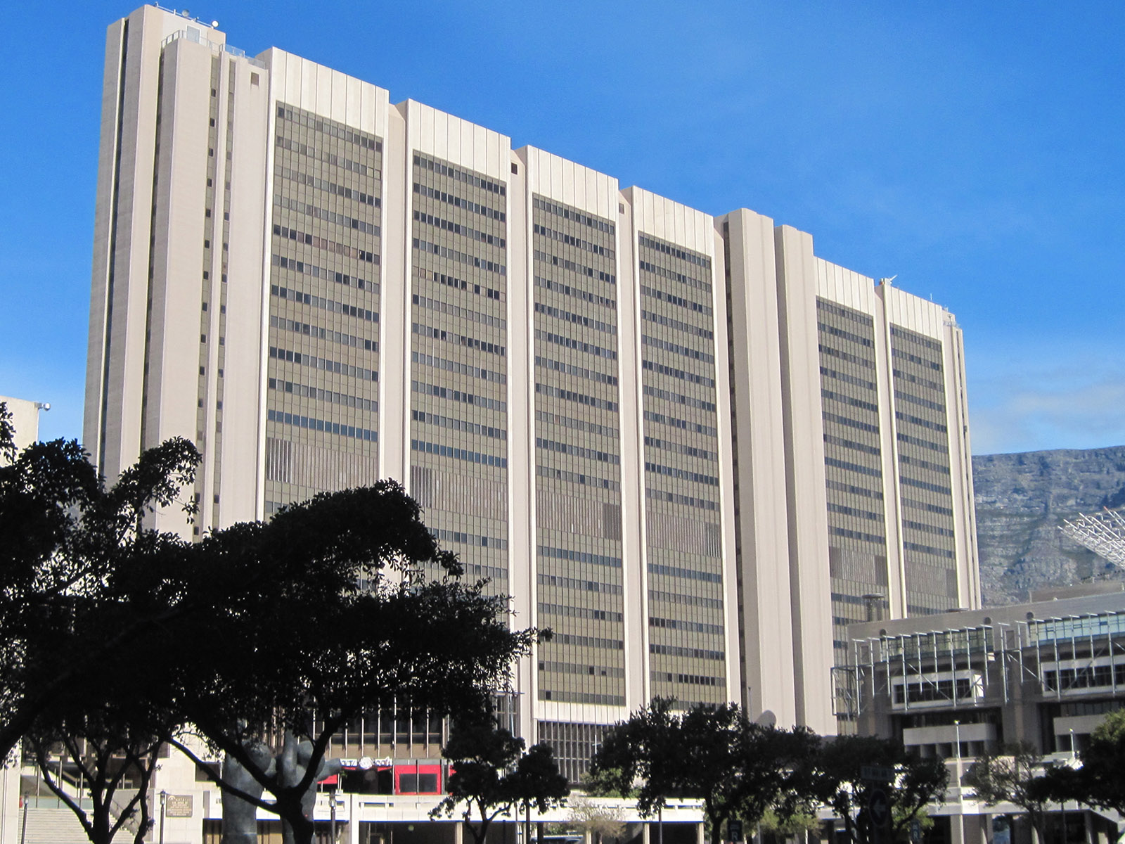 Cape Town Civic Centre in Hertzog Boulevard, Cape Town.